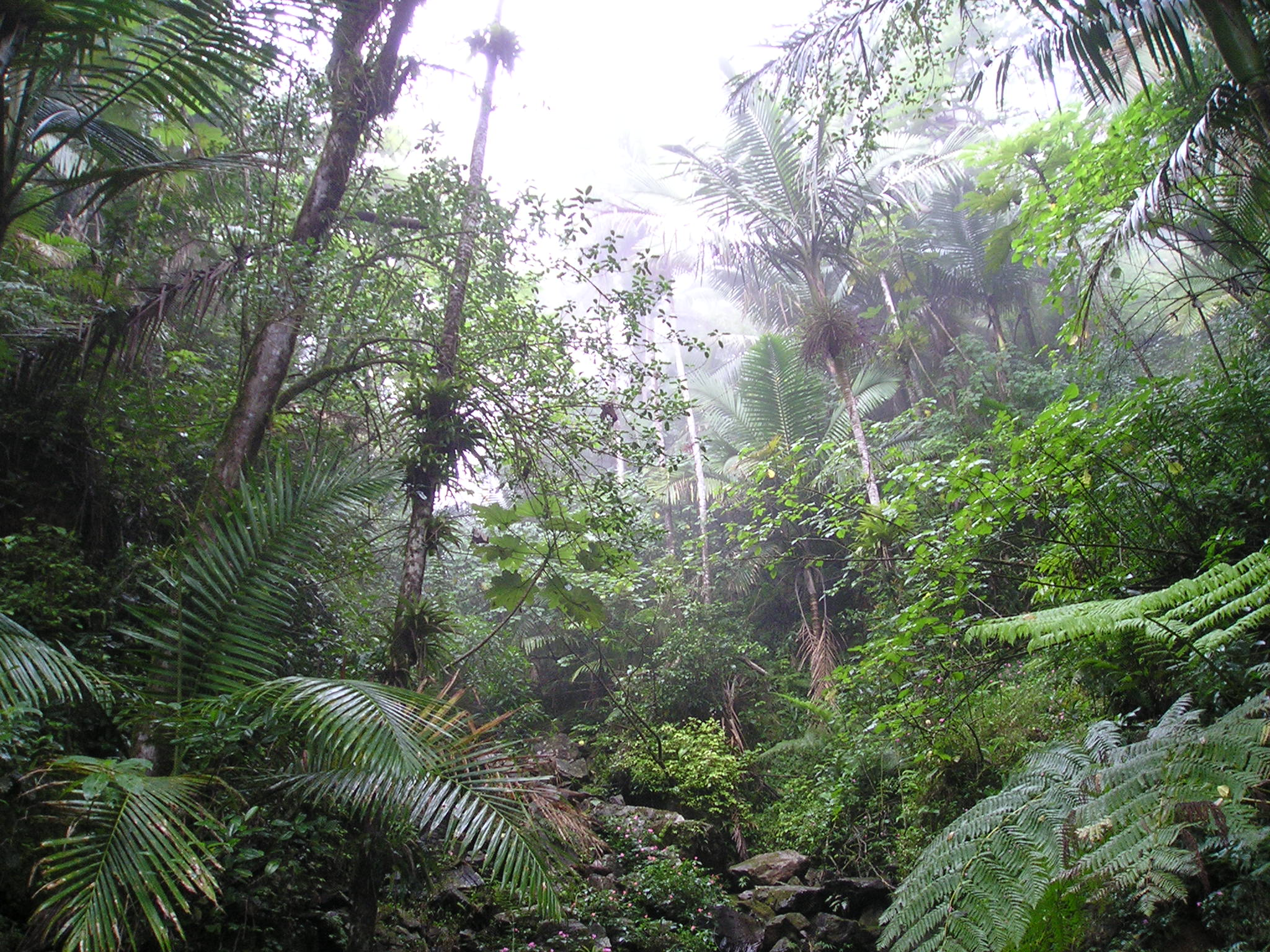 Endemic vegetation in the Caribbean National Rain Forest of El Yunque, (Puerto Rico).